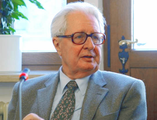 Hans-Jochen Vogel